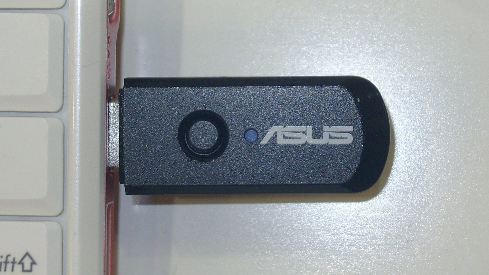 2008 Computex: ASUS Eee Stick, the USB receiver.